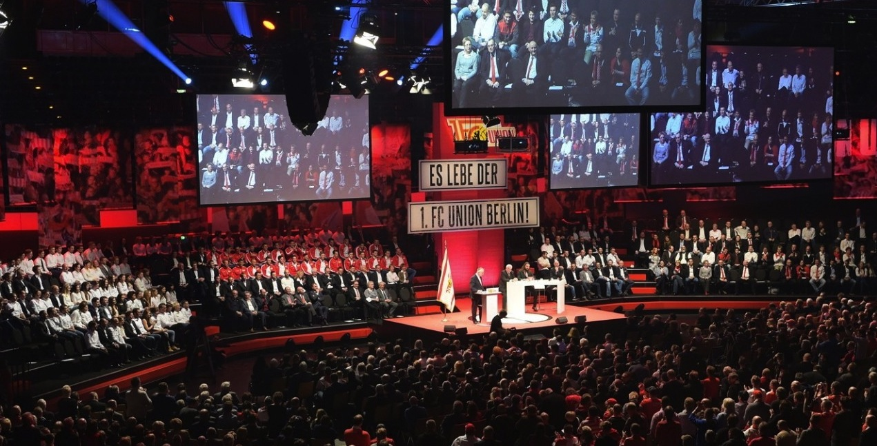 1. FC Union Berlin 50th Anniversary